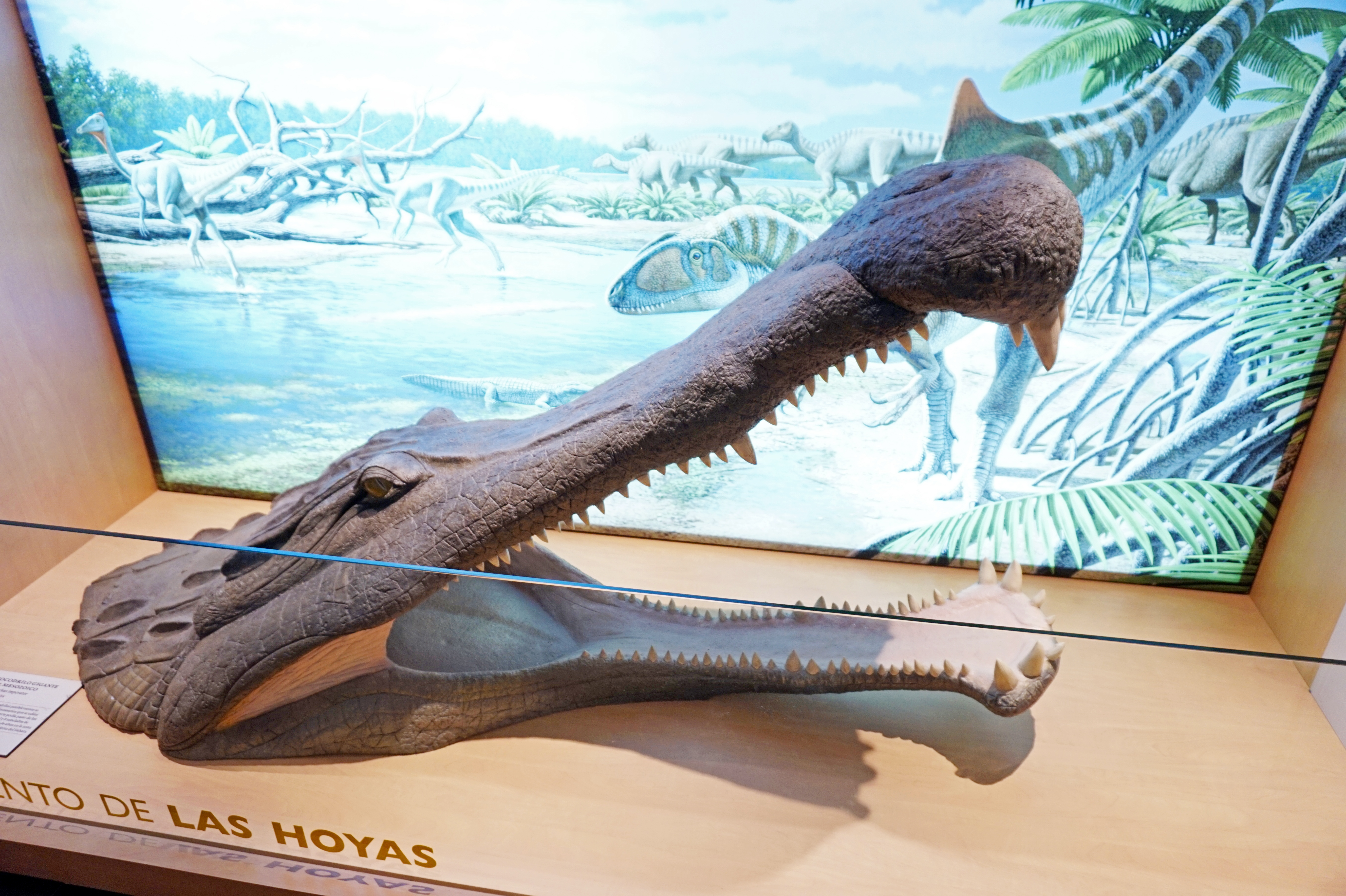 A head of Sarcosuchus imperator in National Museum of Natural Sciences of Spain. Madrid.